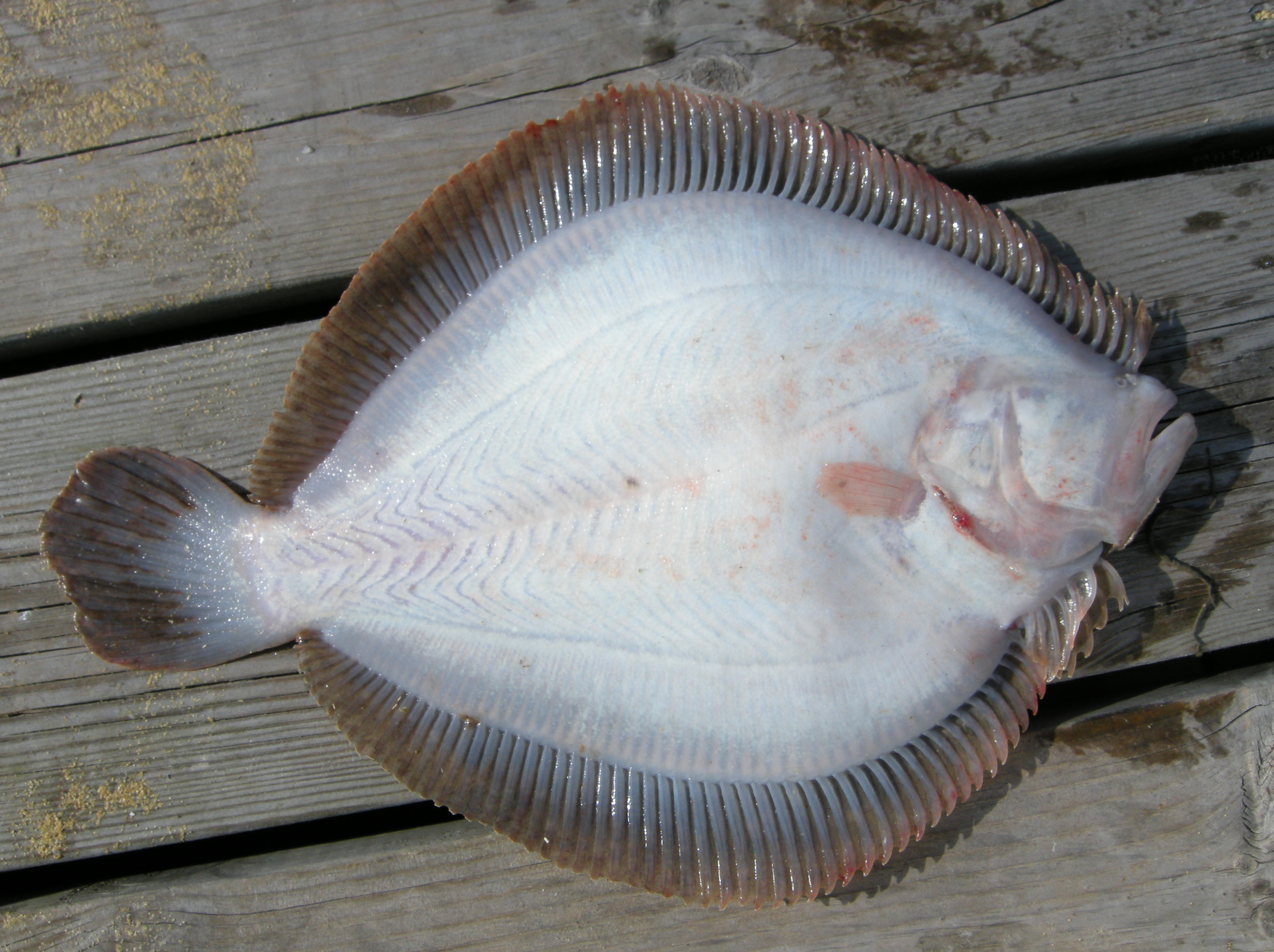 The brill, Scophthalmus rhombus (the underside of the fish) - fished outside Stavern, Norway Norsk (bokmål): Slettvar (undersida) fisket ved Stavern (garn)